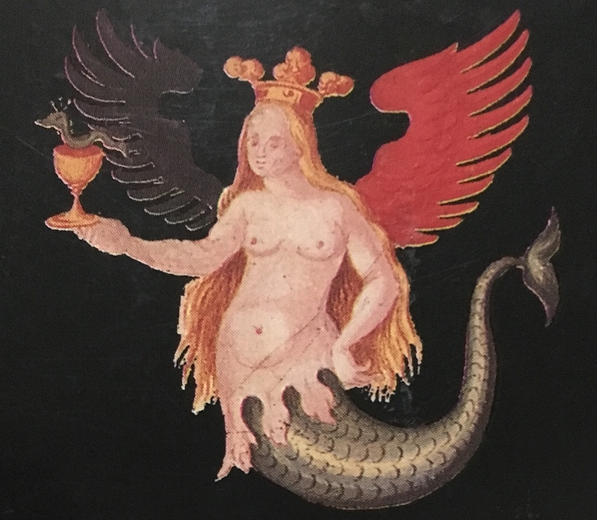 “The Soul of Mercury” represented in the form of a crowned mermaid, from an 18th century alchemical work. Bibliothèque de l’Arsenal, Paris. The image presented on the back cover of Le chant de la sirène by Vic de Donder, the 152nd title of the collection “Découvertes Gallimard”.